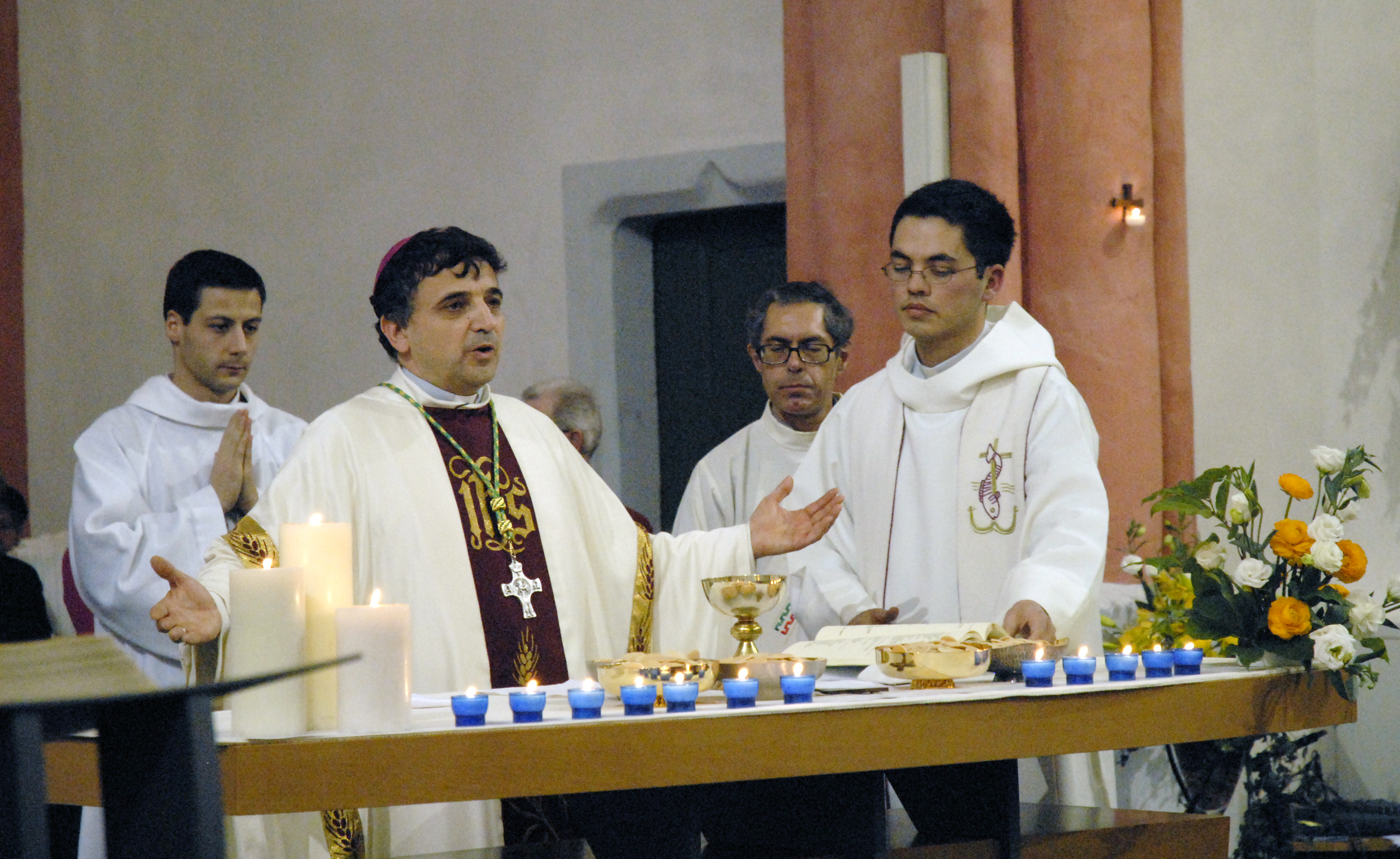 dédicace